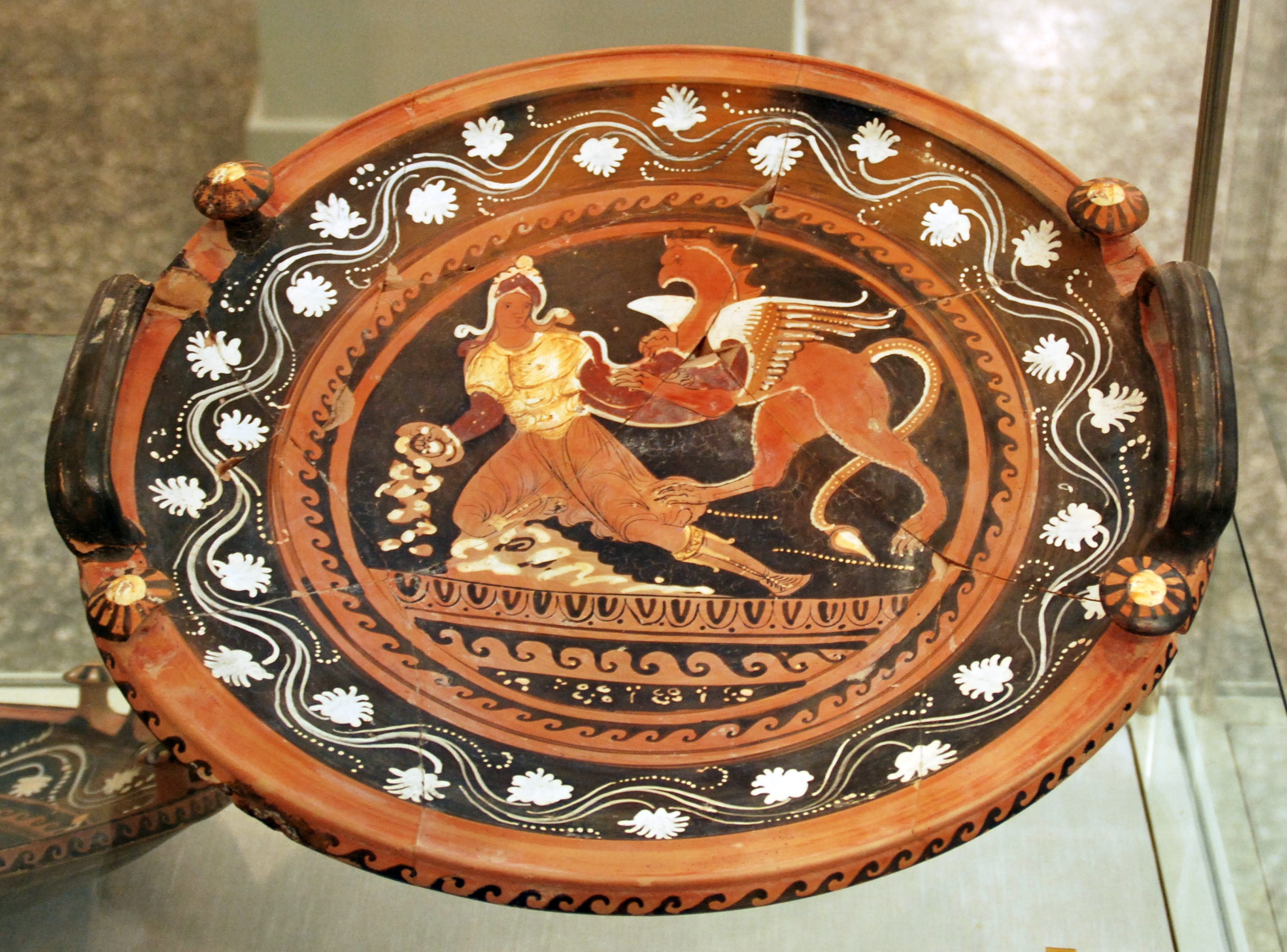 Apulian red-figure Patera by the White Saccos Painter: An Arimasp defends himself against a griffin. About 340/10 BC. Antikensammlung Kiel, inventory number B 558.